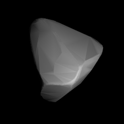 3D convex shape model of 1494 Savo, computed using light curve inversion techniques. J. Hanuš, J. Ďurech, M. Brož, B. D. Warner (June 2011). "A study of asteroid pole-latitude distribution based on an extended set of shape models derived by the lightcurve inversion method". Astronomy and Astrophysics 530: A134. ISSN 0004-6361. arXiv